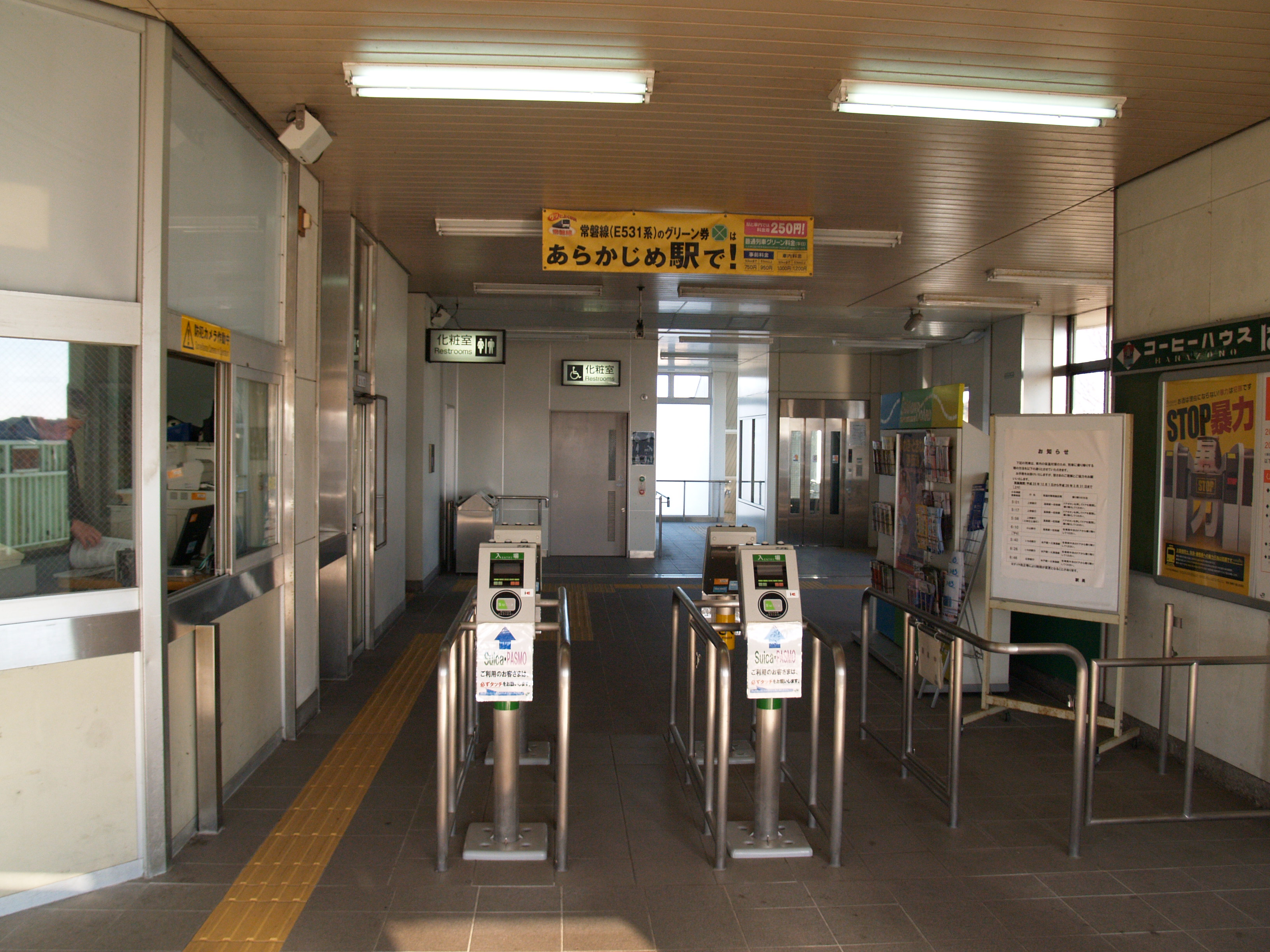 Ticket gate of Ogitsu Station